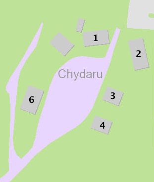 map of chydaru